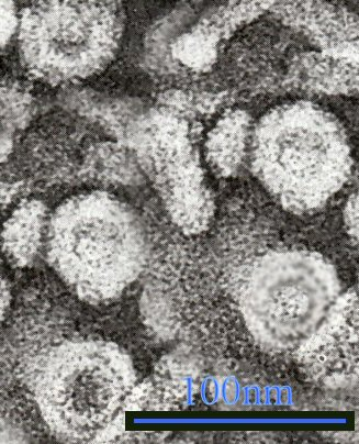 Transmission electron micrograph of Hepatitis B virus particles and surface antigen from blood. Source This electron micrograph is the work User:GrahamColm who is the copyright holder.